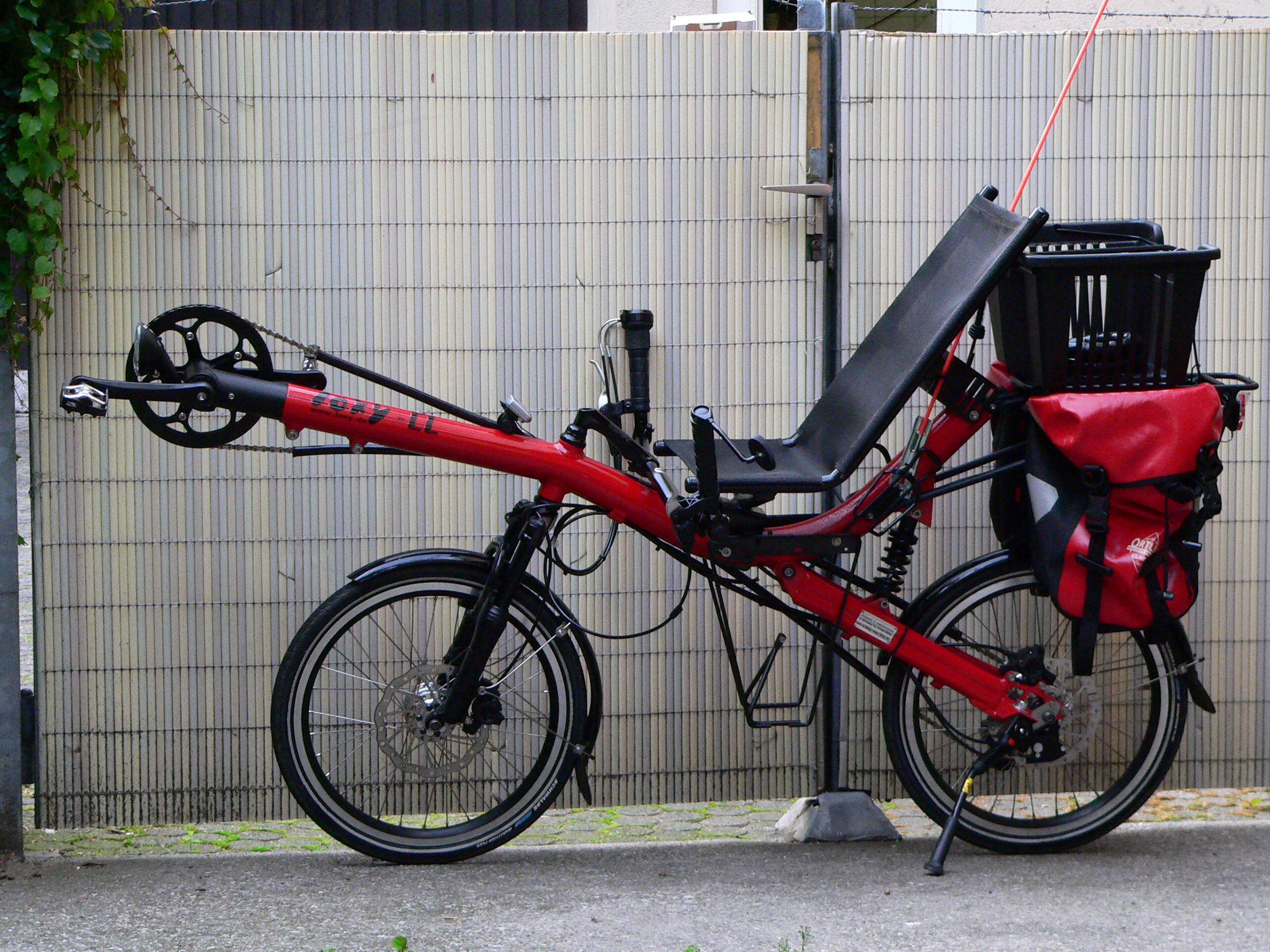 Short wheelbase bicycle Toxy CL